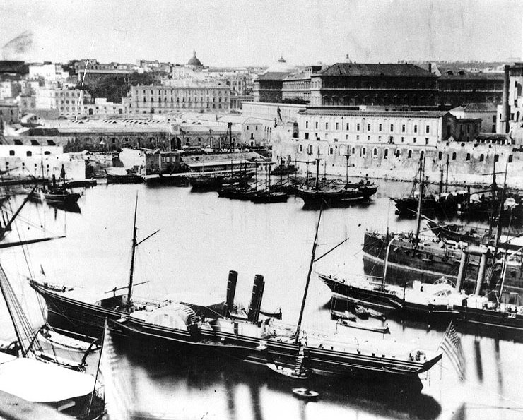 USS Frolic (formerly USS Advance) at Naples, Italy, ca. 1865-69. In the early part of the American Civil War she was the Confederate blockade runner A. D. Vance before her capture in 1864.